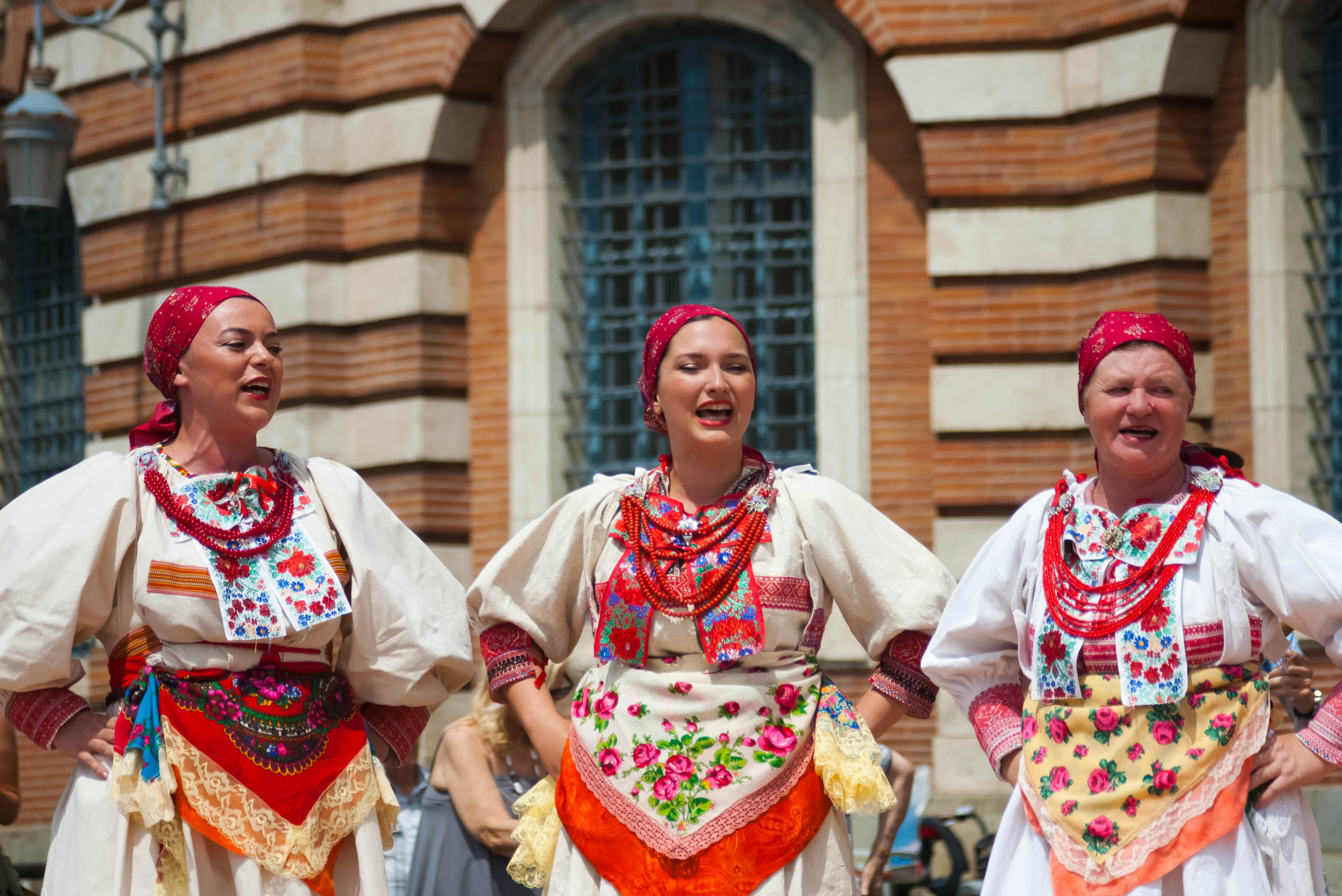 Croatian Folk dancers at the festival "Grand Fenêtra" of Toulouse 2014